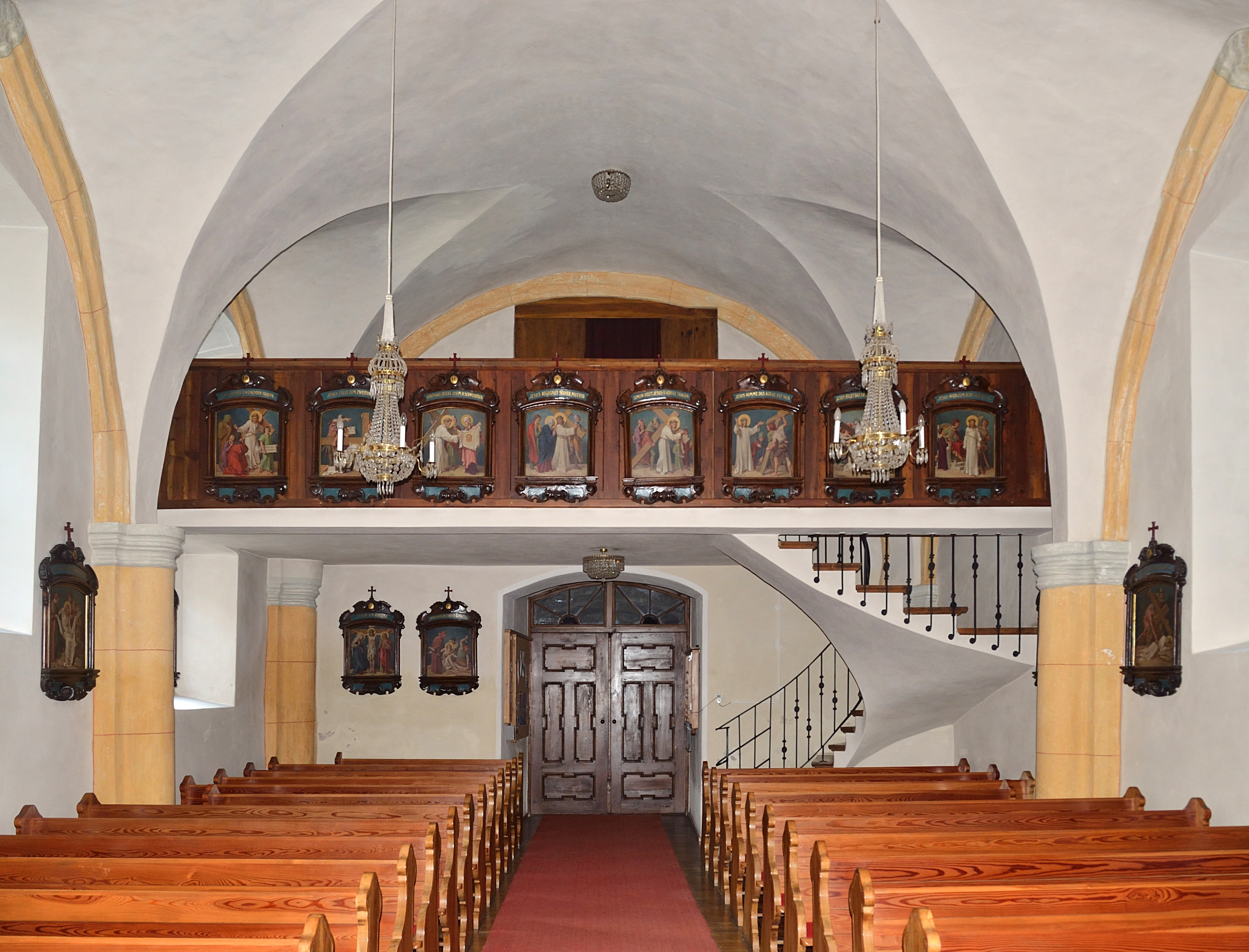 Catholic parish church of the Visitation in Koglhof, Styria. Included in heritage protection are the fence (hard to find), the gate and the shrines with the four evangelists.